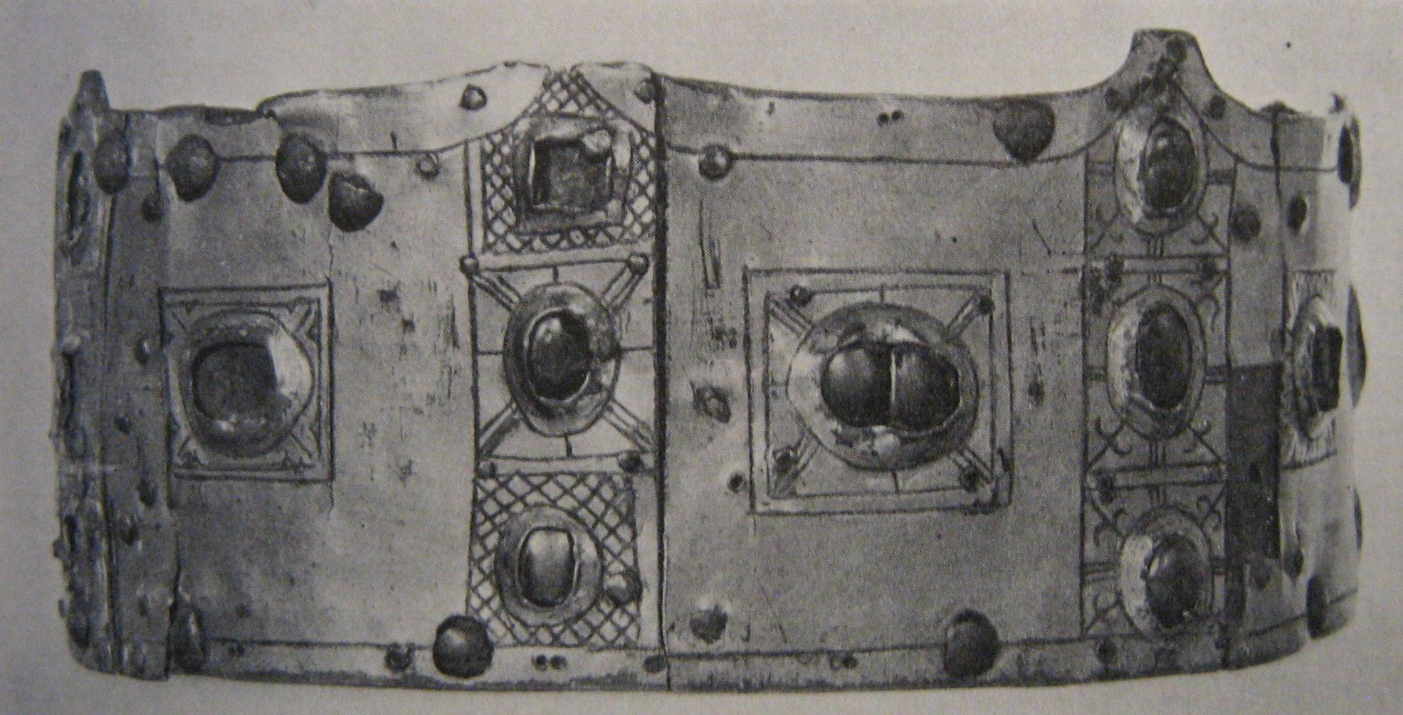 Crown from Erik the Holy Shrine